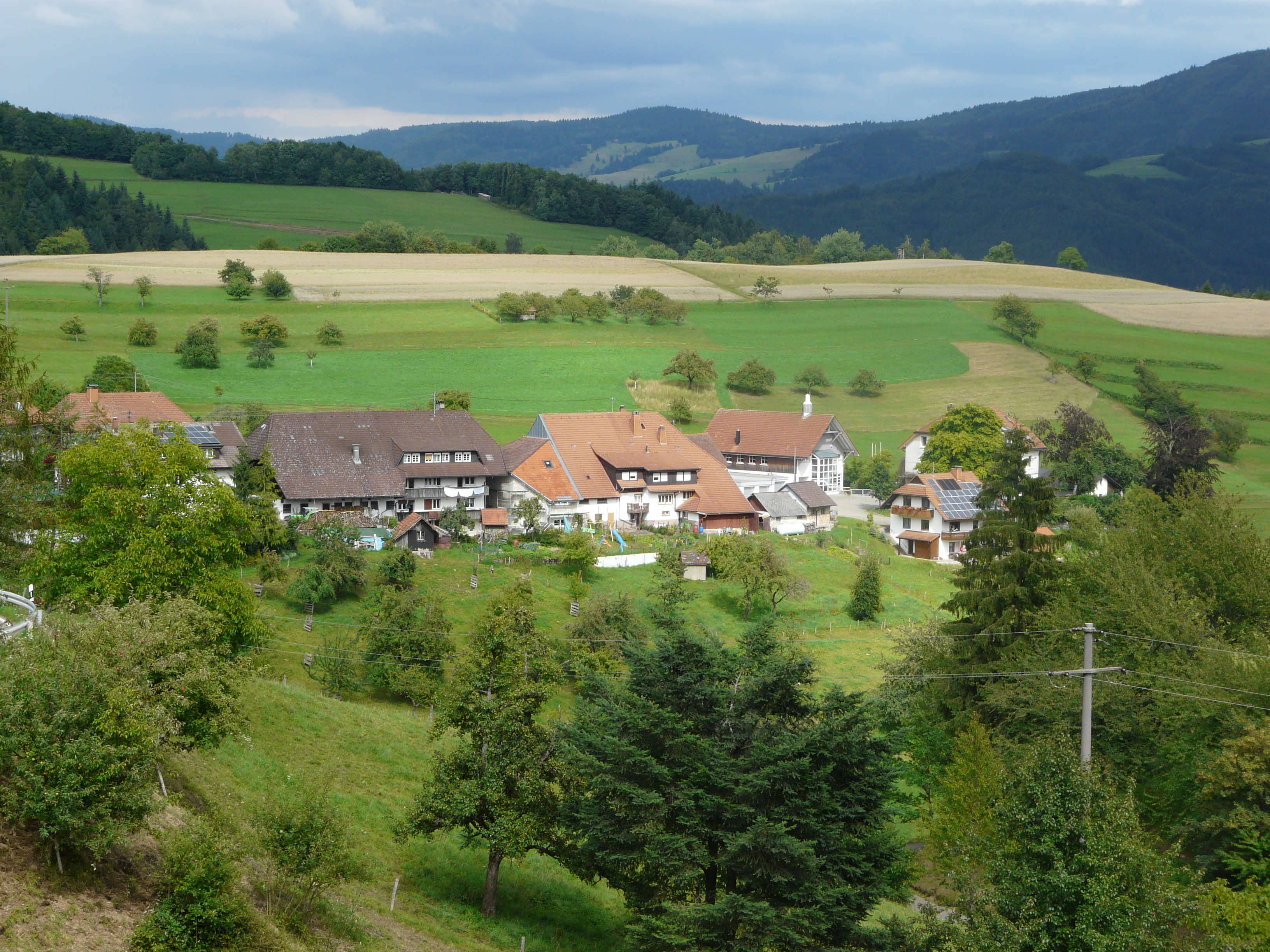 Adelsberg